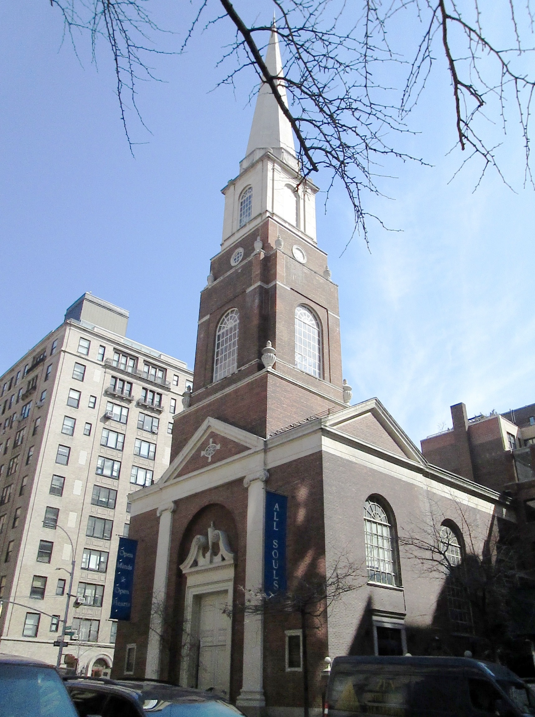 The Unitarian Church of All Souls at 1157 Lexington Avenue at East 80th Street in the Upper East Side of Manahattan was built in 1932 and was designed by Herbert Upjohn – Richard Upjohn's grandson – in the Neo-colonial style with a Regency-style brick base. It is the congregation's fourth sanctuary. (Sources: From Abyssinian to Zion (2010) and AIA Guide to NYC (5th ed.)